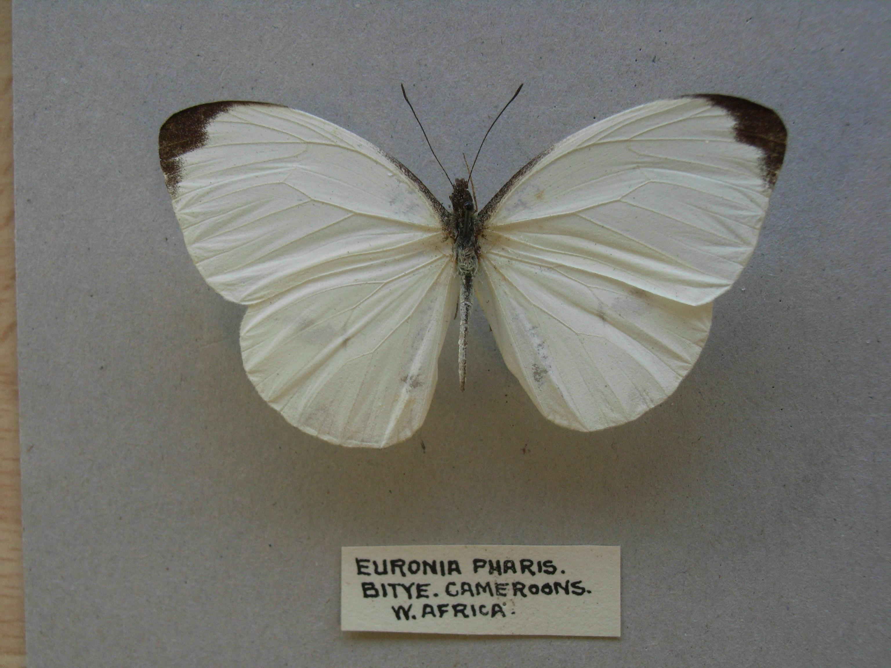 Euronia pharis:Pieridae:Lepidoptera The valid name is Nepheronia pharis (Boisduval, 1836) Nepheronia is a small genus endemic to Africa